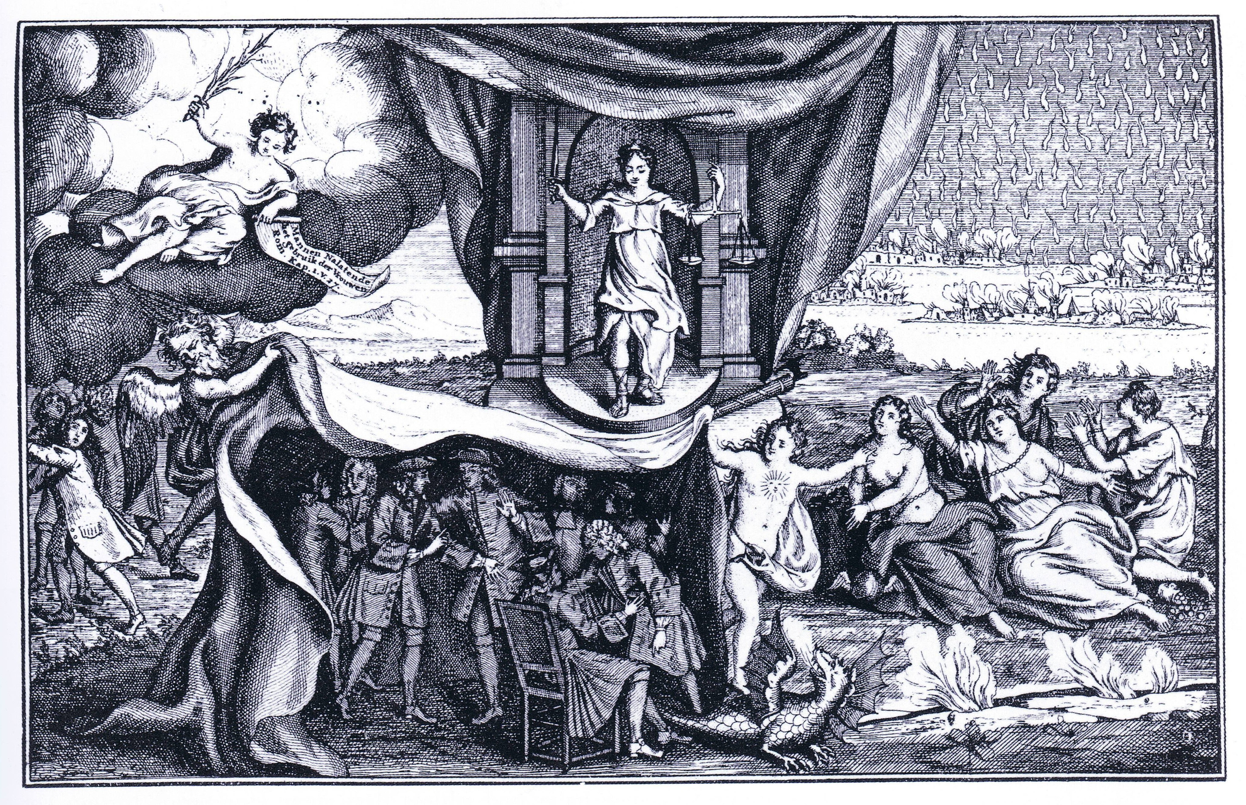 Representation of the Netherlands destroyed by water and fire, while allegories of Truth and Virtue uncover a group of sodomites. On top, Justice looks at it from above, as does a figure holding a flaming sword and a scroll that reads "men, leaving the natural use of the woman" (Romans 1:27). The conveyed meaning is that Dutch sodomites will incur God's wrath, who, as a consequence, will destroy the Netherlands.